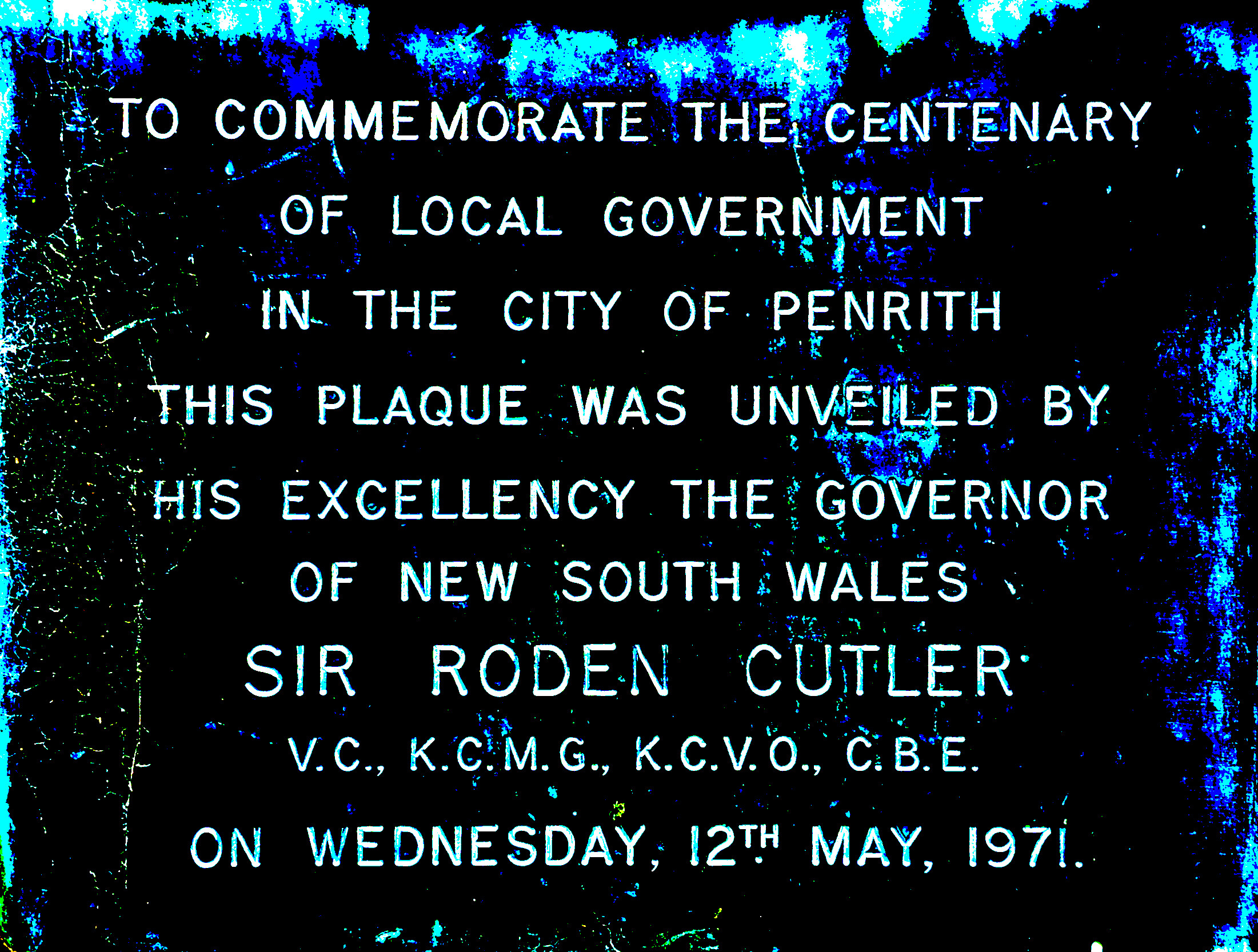 Plaque outside community centre, Henry Street, Penrith, Sydney